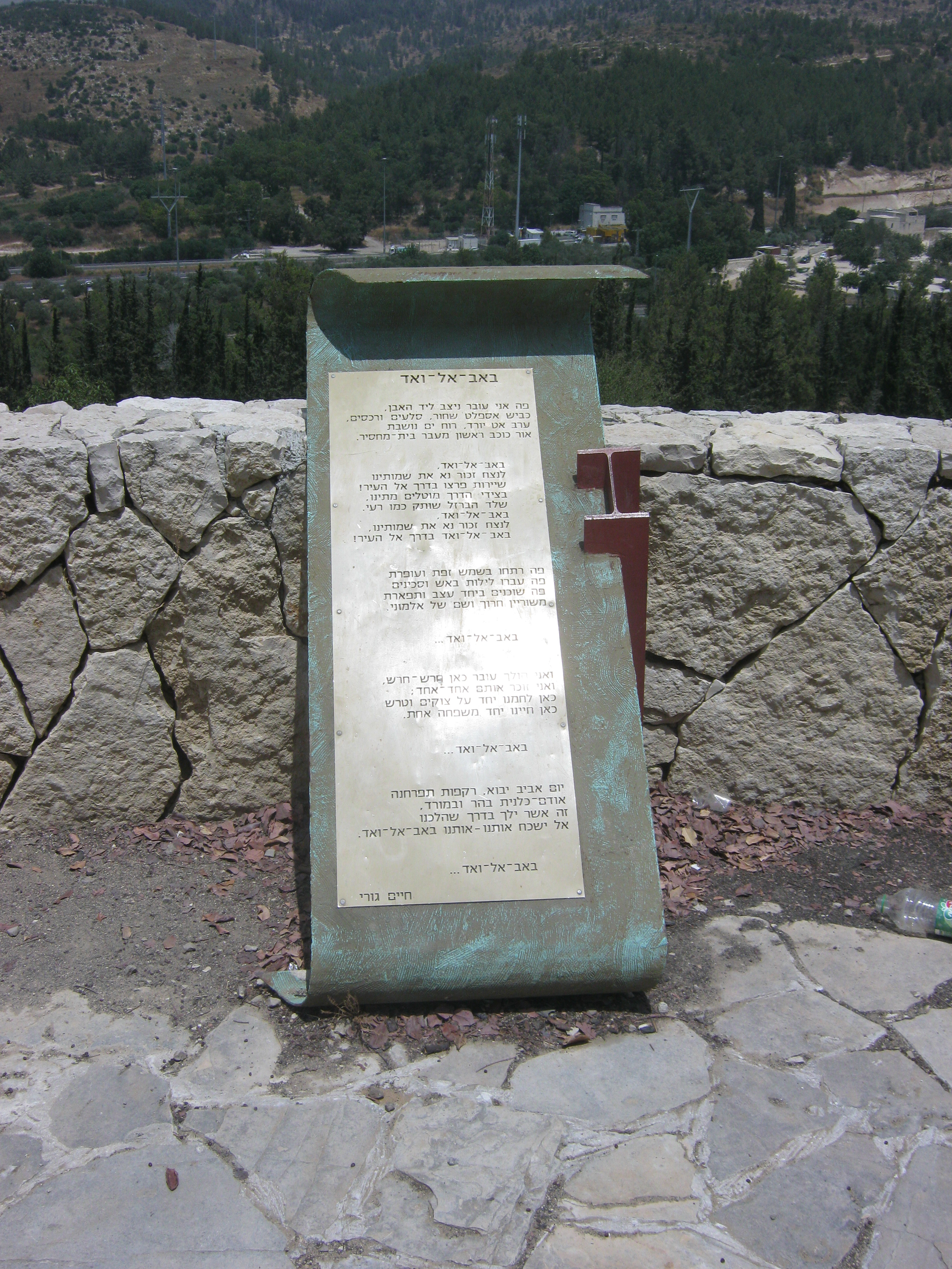 5th Palmach Battalion Monument